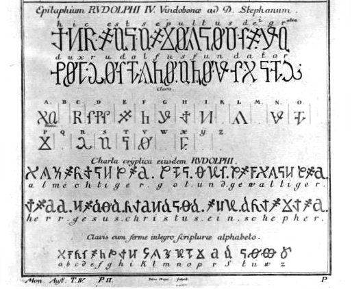 The decipherment of the epitaph from before 1365 upon the cenotaph, or symbolic tomb, of Duke Rudolph IV of Austria ("the Founder") in the Stephansdom in Vienna. The translation of the secret writing into English is "This is the sepulcure of Rudolph, by the grace of God, Duke and Founder" and "Almighty God and great lord Jesus Christ, a shepherd." Rudolf was never, in fact, buried within the almost-solid stone structure, but in the Ducal Crypt elsewhere in the cathedral. The code used is the Alphabetum Kaldeorum, a cipher he probably invented.